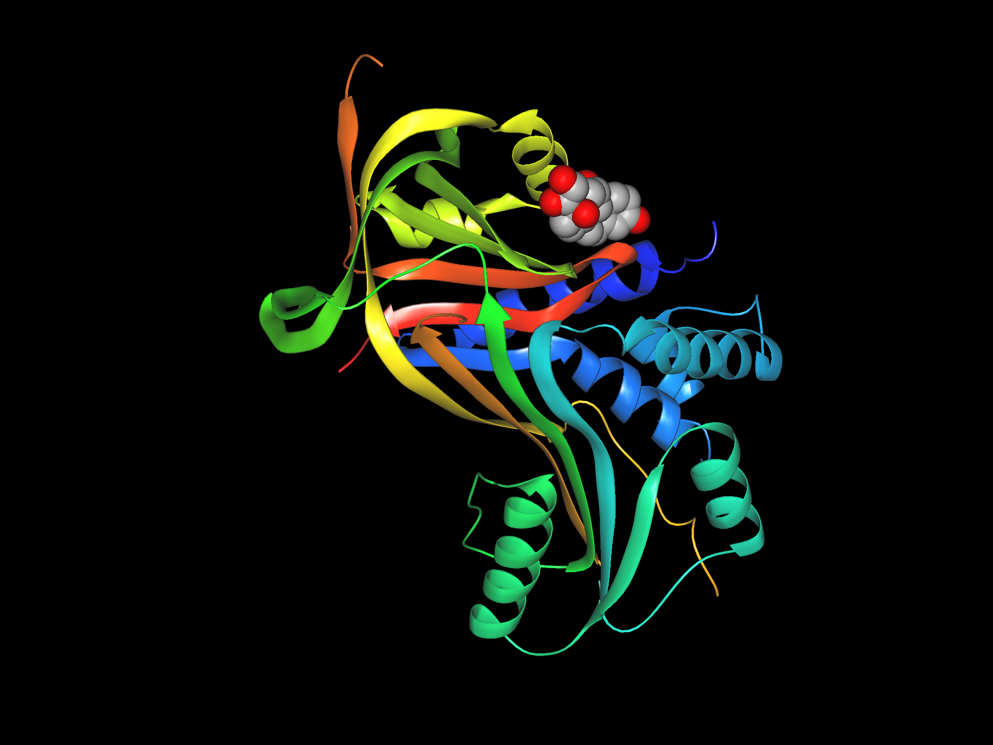 Corticosteroid-Binding Globulin structure